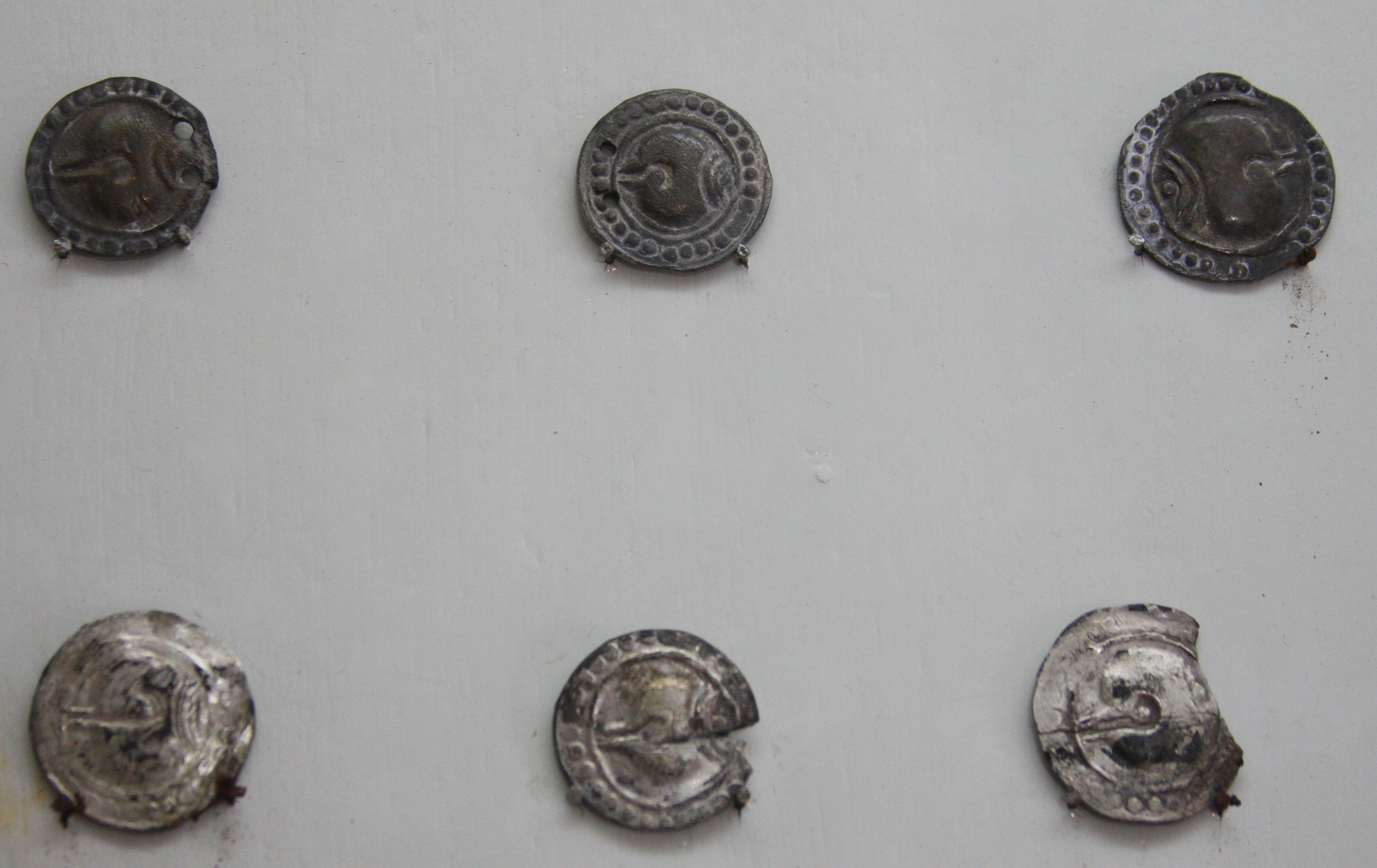 Silver coins from Dvaravati period, 600-800, found in Lopburi province, Thailand. Lopburi National Museum.